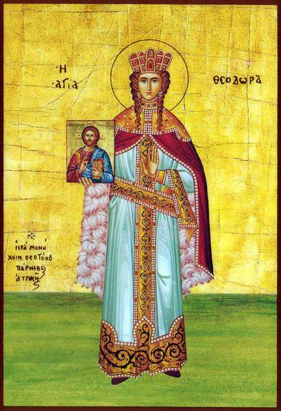 Empress Theodora